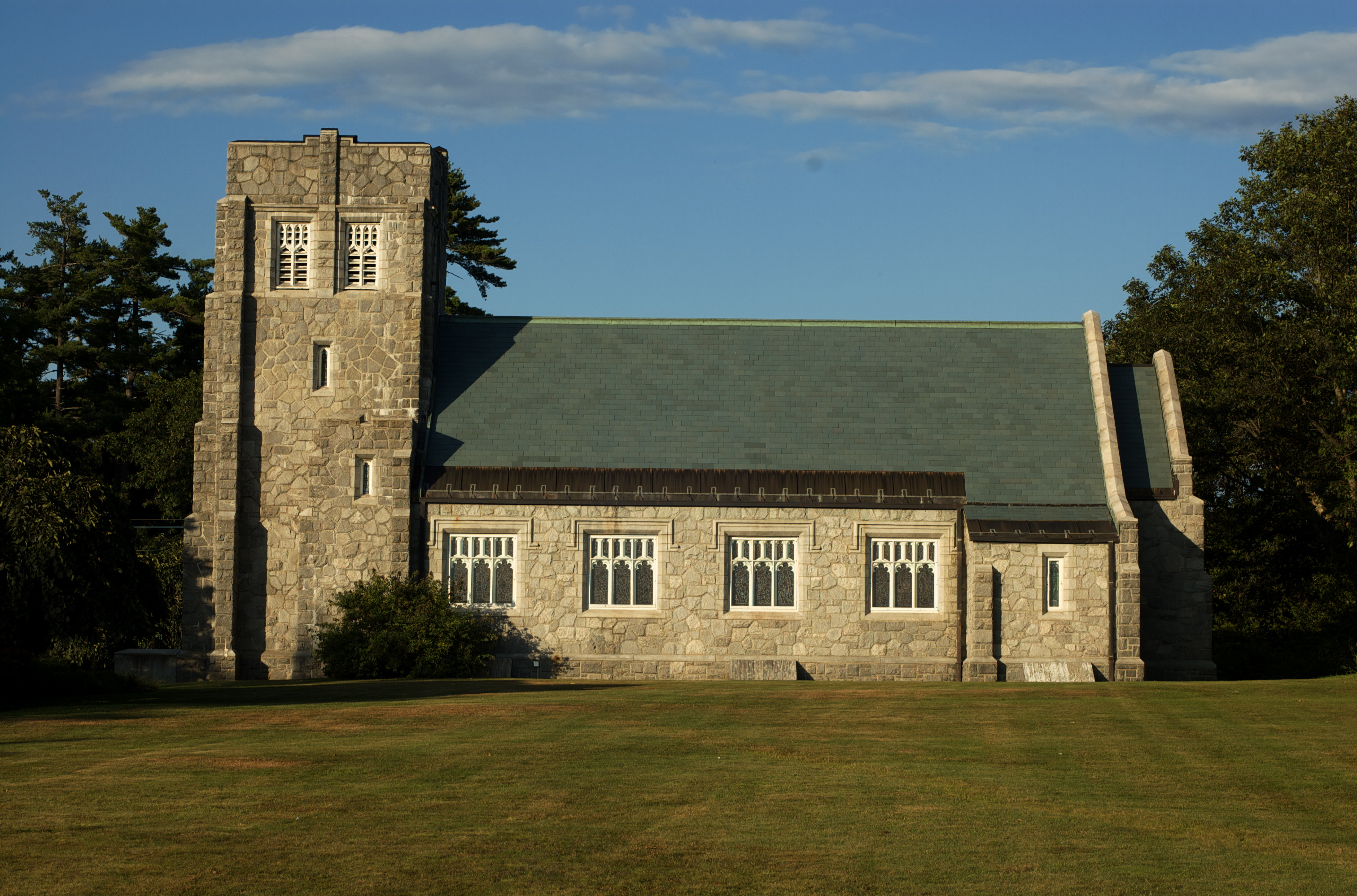 The All Souls Chapel at Poland Spring Preservation Park in Androscoggin County, Maine.